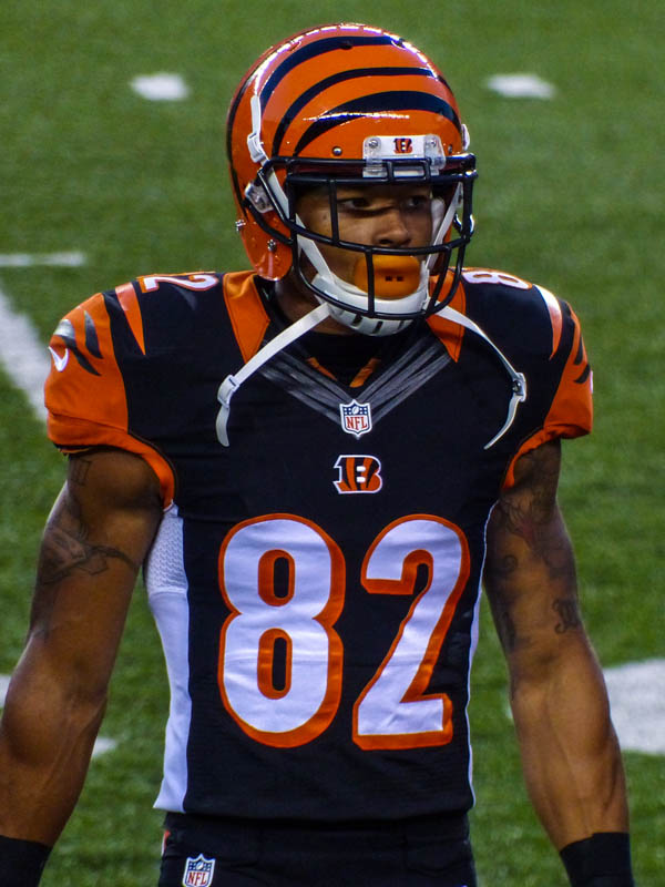 Warming up before Monday Night Football game vs the Pittsburgh Steelers, September 17, 2013